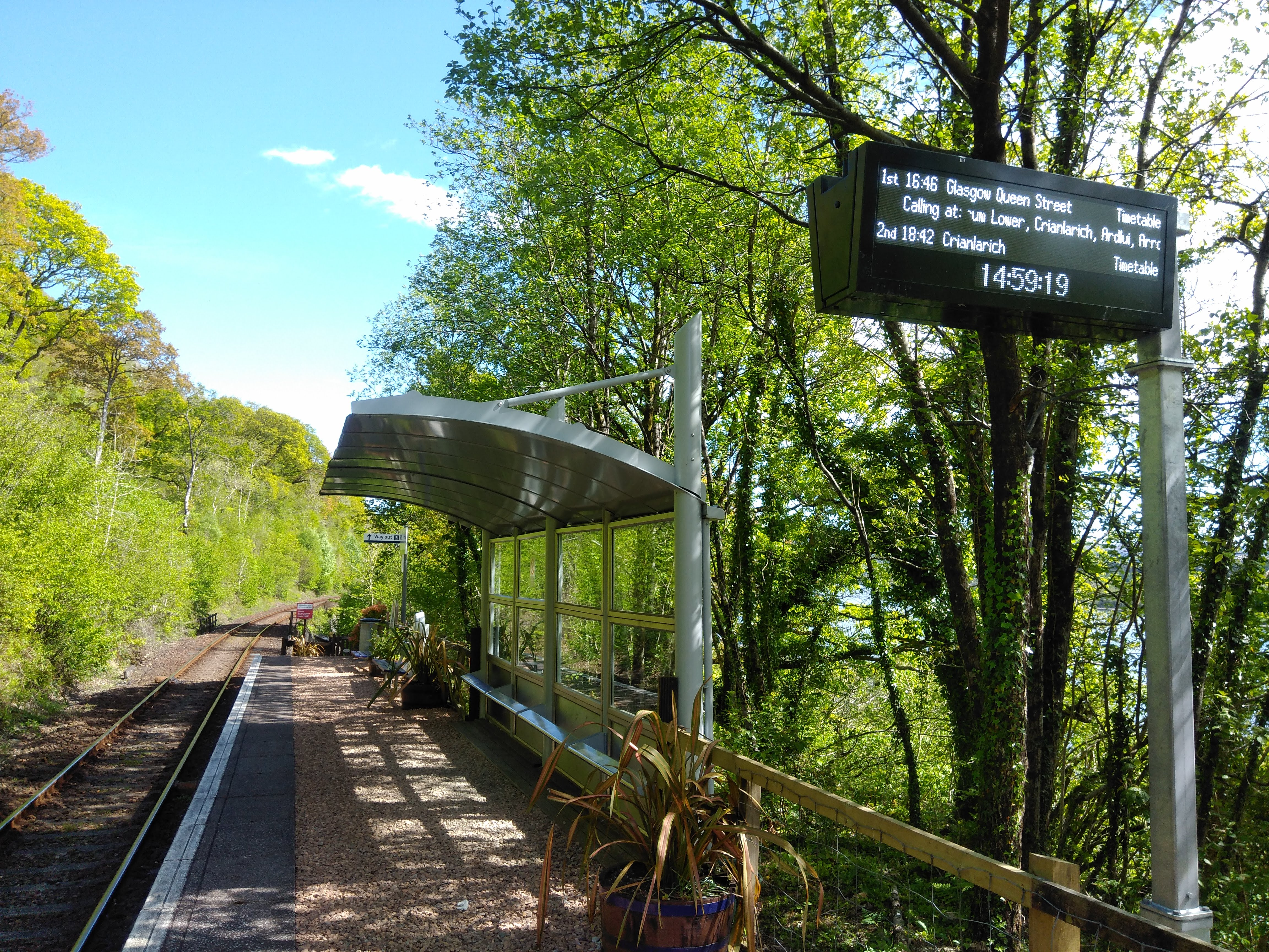 Falls of Cruachan railway station, taken on the 12th of May 2019.